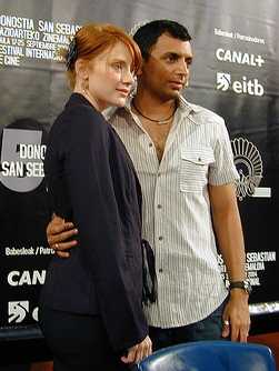 Night Shyamalan and Bryce Dallas Howard